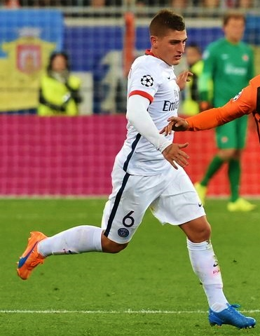 Marco Verratti